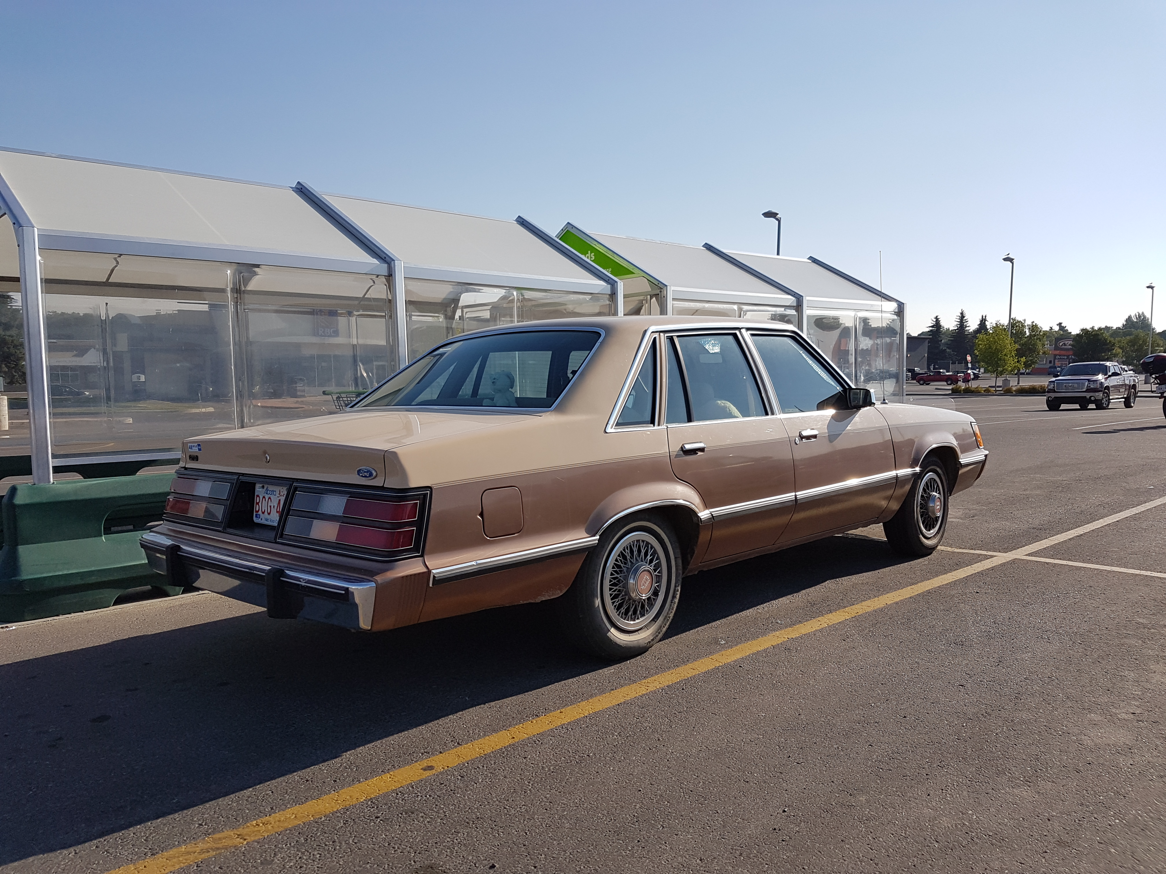 Fourth generation (1983 to 1986) Ford LTD in two tone brown.